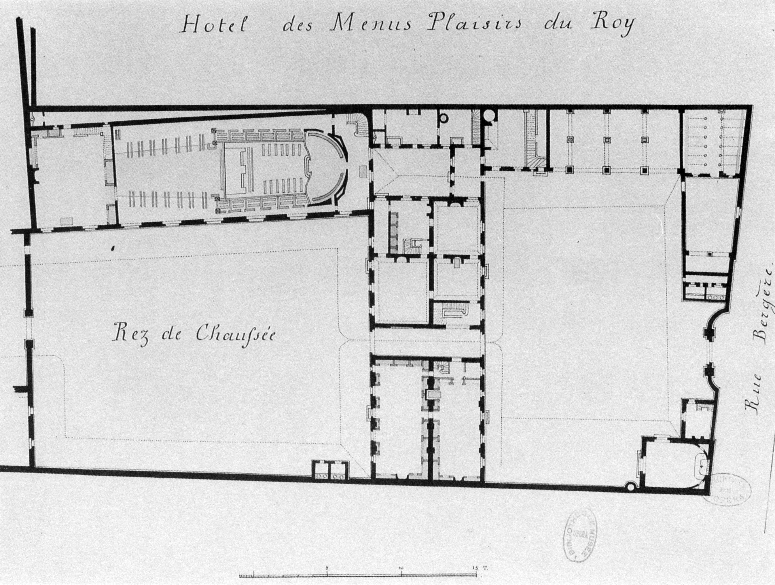 Plan of the Hôtel des Menus-Plaisirs on the Rue Bergère in Paris